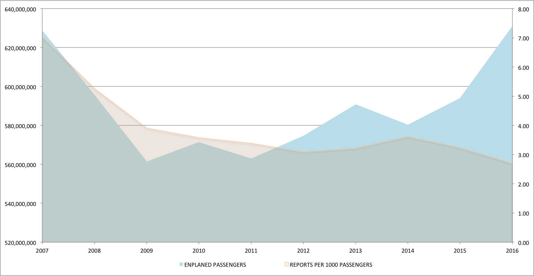 Graph representing the decrease of lost luggage reports in relation to the emplaned passenger growth.